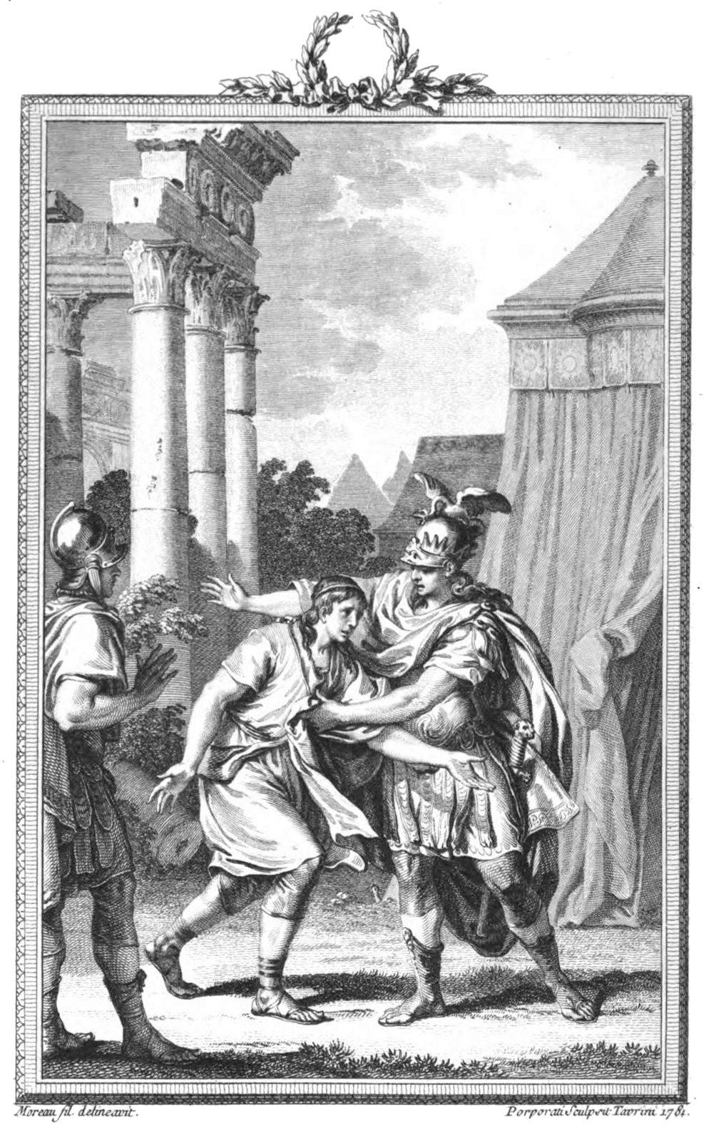 Metastasio - Il re pastore, Atto II, Scena IV. Alessandro: „No; dell’amico / Vieni alle braccia, e, di rispetto in vece, / Rendigli amore.“